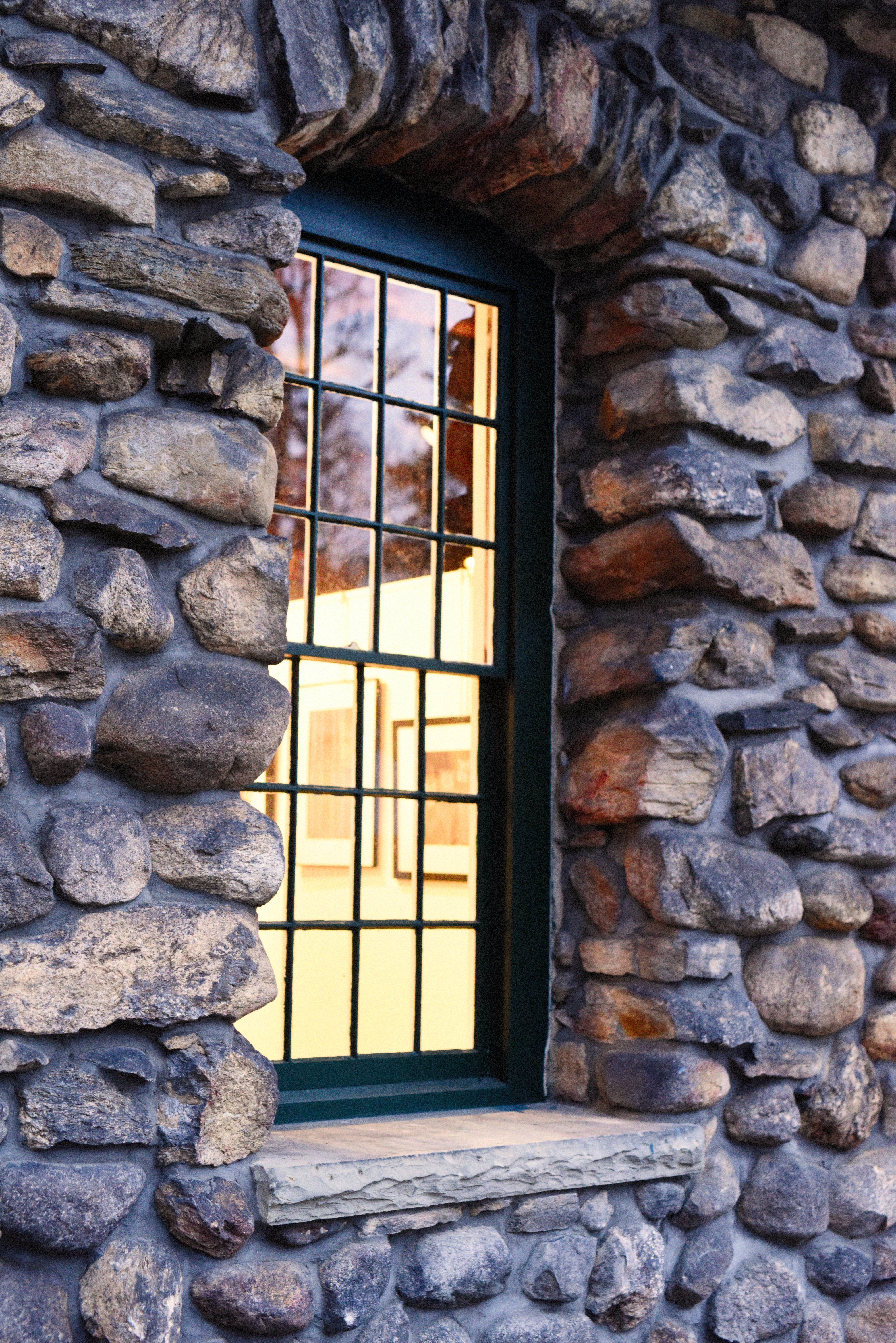 Waveny Park Entrance to the arts building.